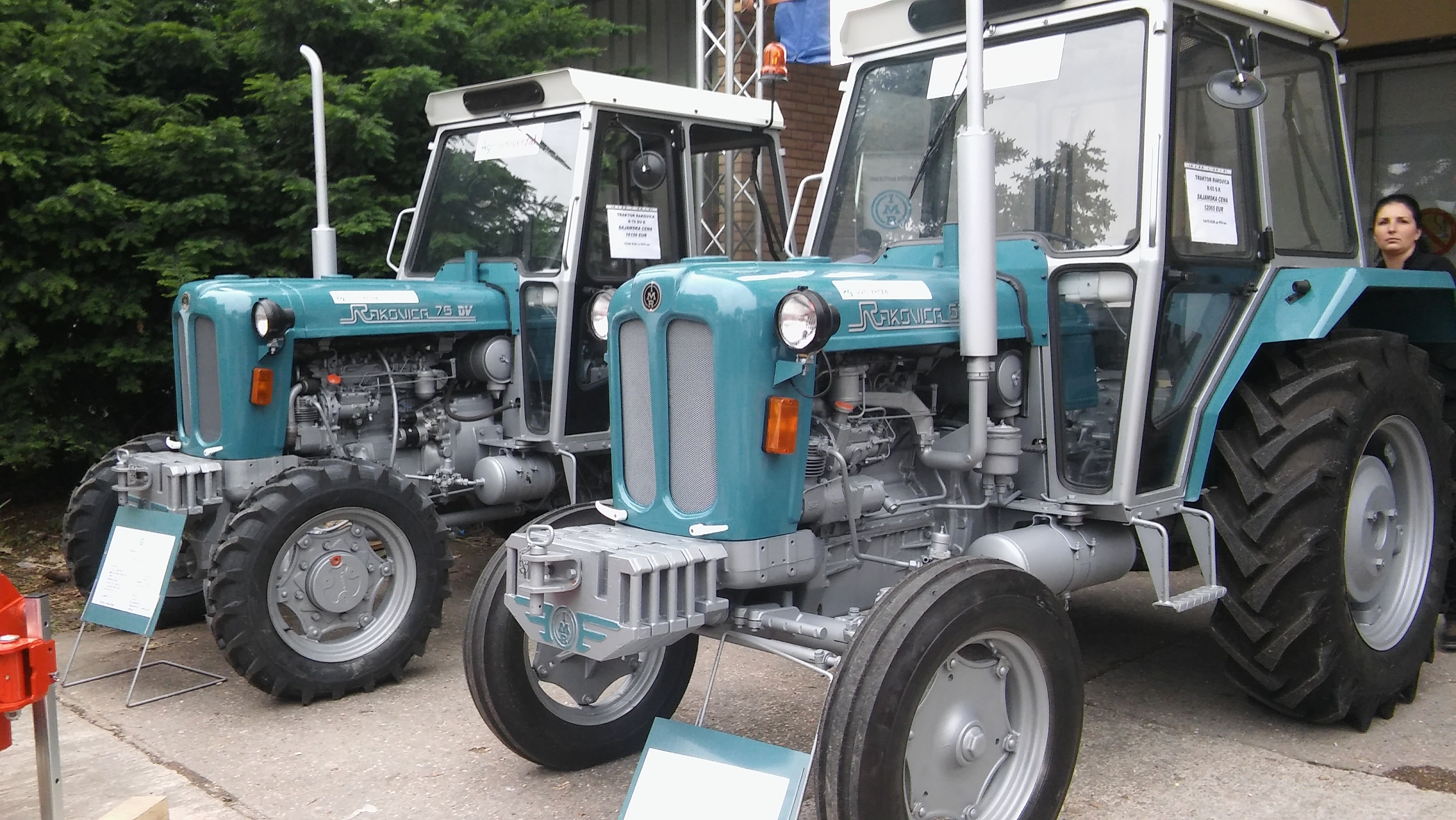 Rakovice